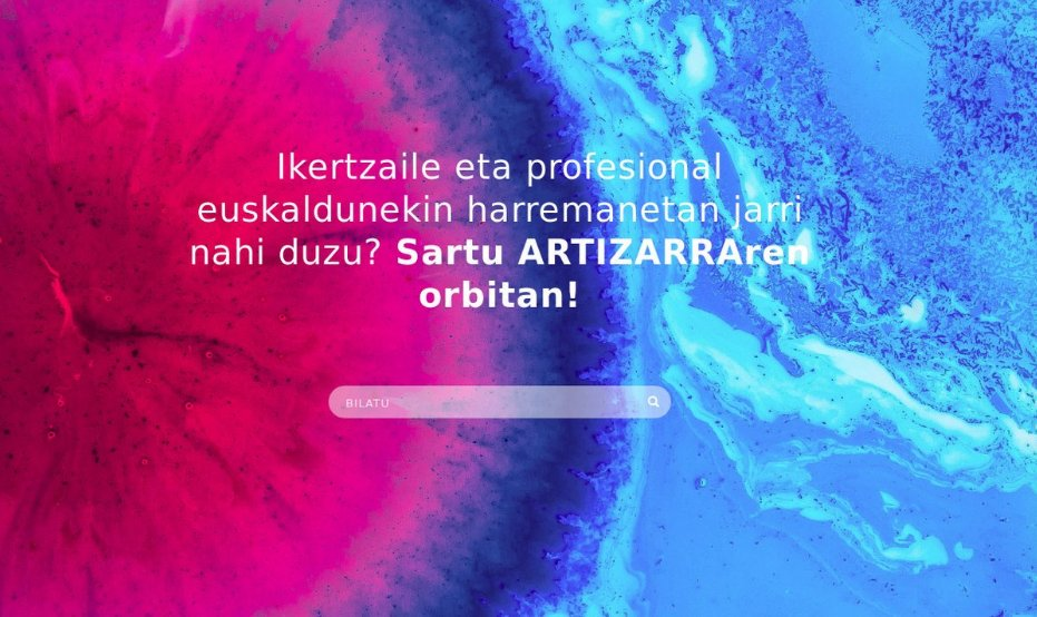 Social network in Basque for researchers and professionals created by UEU in 2018.